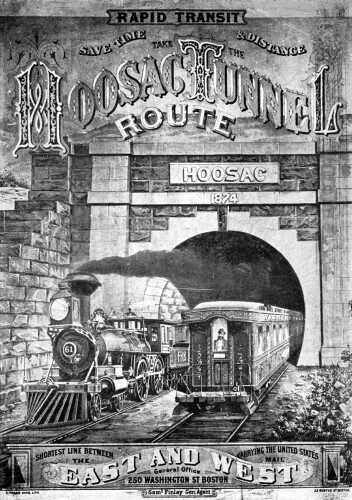 The Hoosac Tunnel Route, cover image.